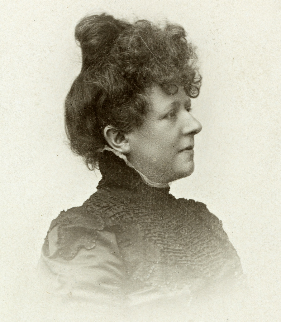 Cropped from File:Portrett av Randi Marie Blehr, 1899.jpg